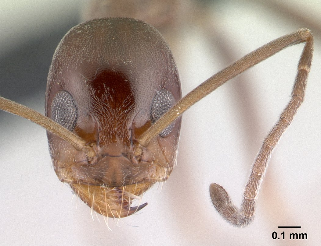 Head view of ant Dorymyrmex goeldii specimen casent0192702.